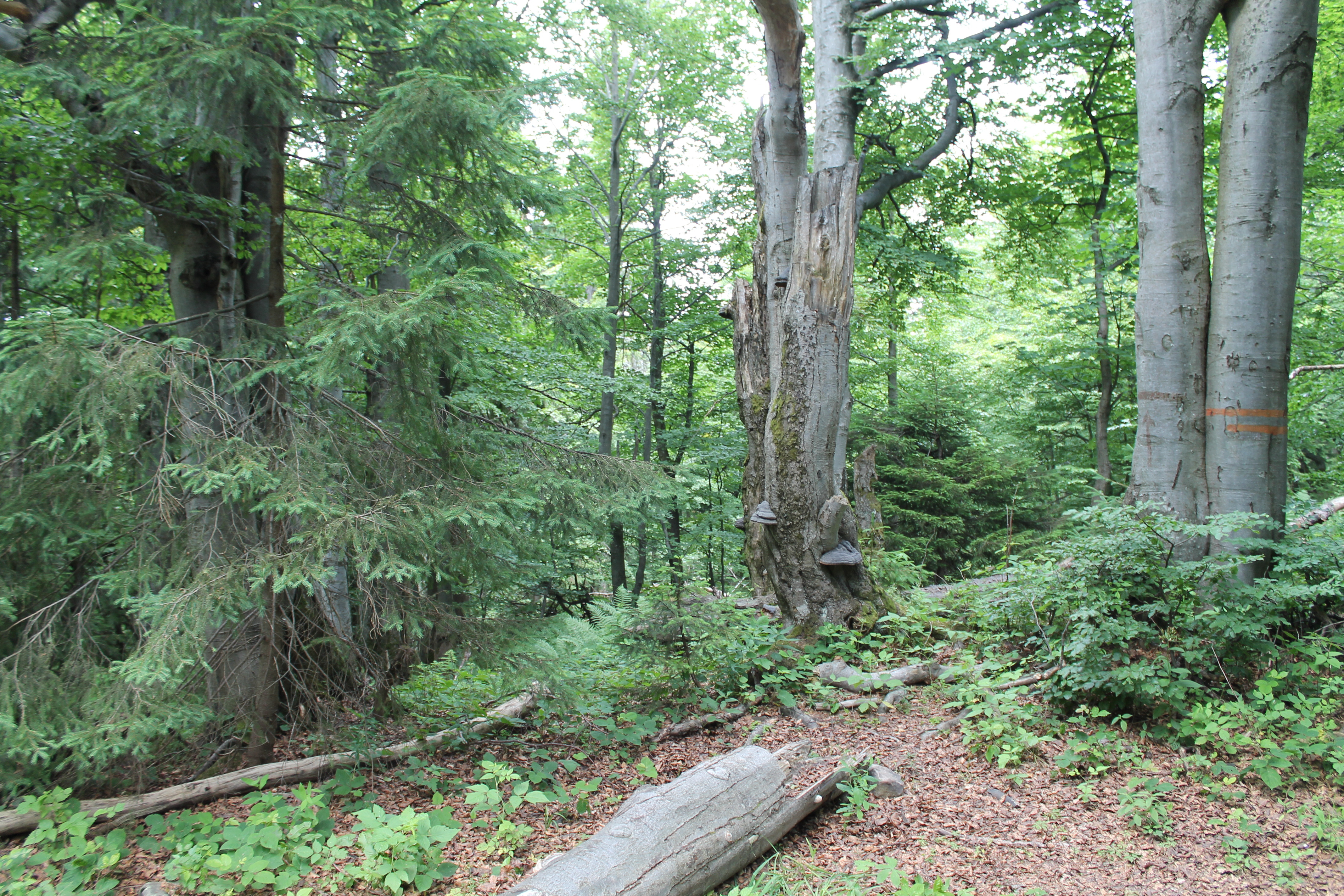 Veľký Javorník nature reserve, Makov, Čadca District, Slovakia